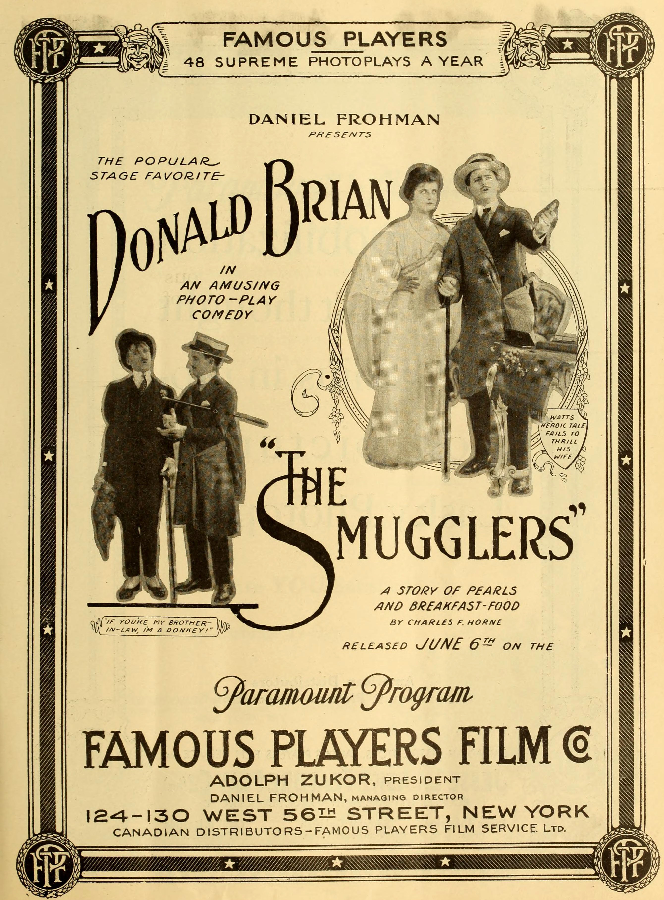 Advertisement in Moving Picture World for the American film The Smugglers (1916).